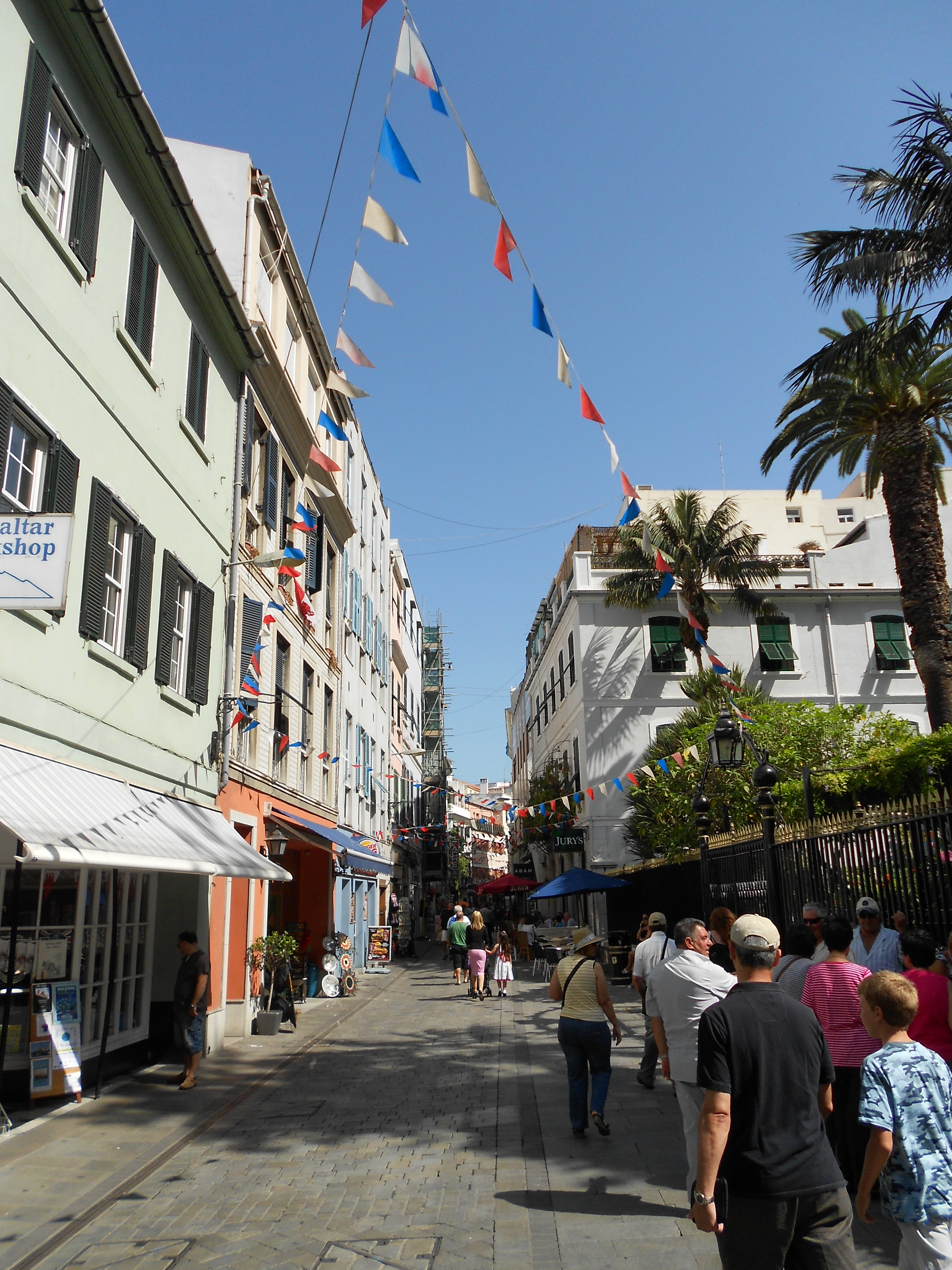 Main Street, Gibraltar